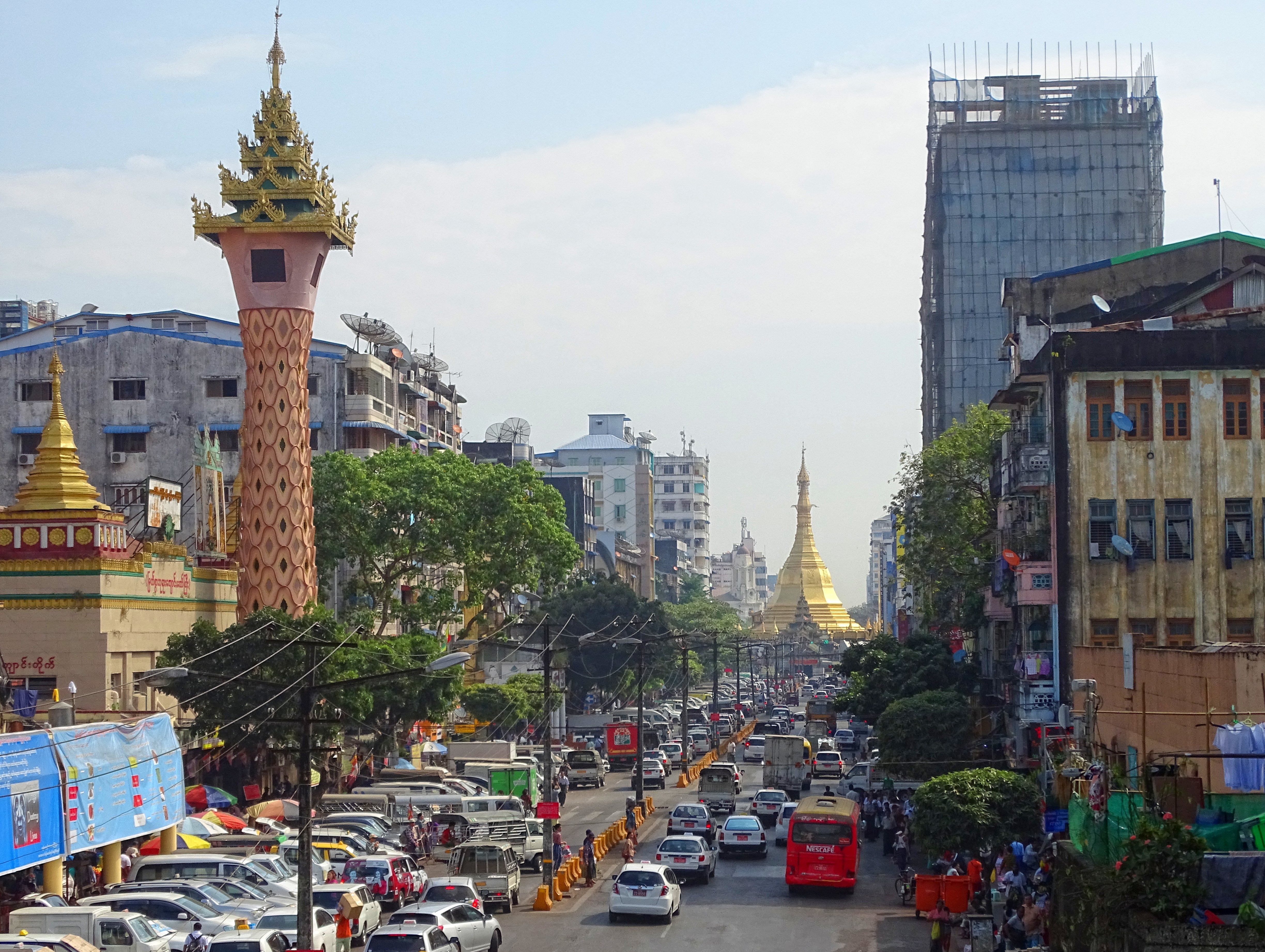 A view from west towards east of Maha Bandula Street in central Yangon, Myanmar. We see the Maha Theindawgyi temple on the left and the Sule Pagoda, located in a large round-about in the back of the photo.